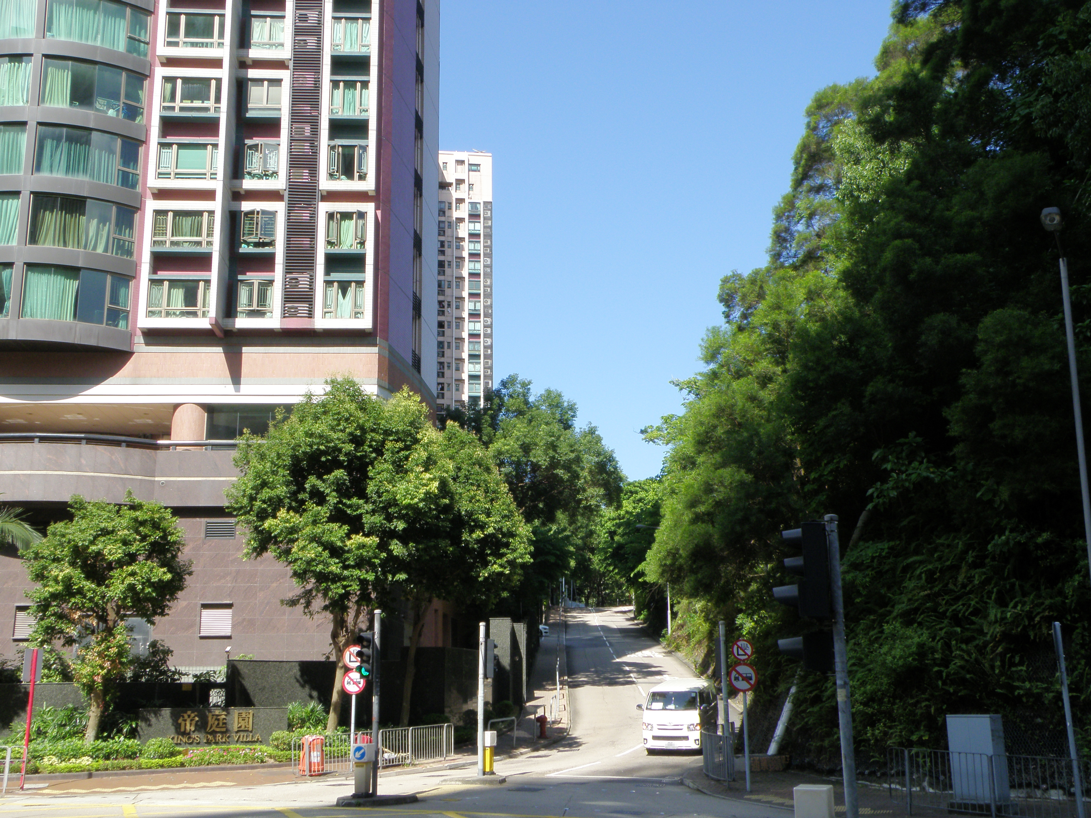 King's Park Rise in King's Park, Hong Kong.